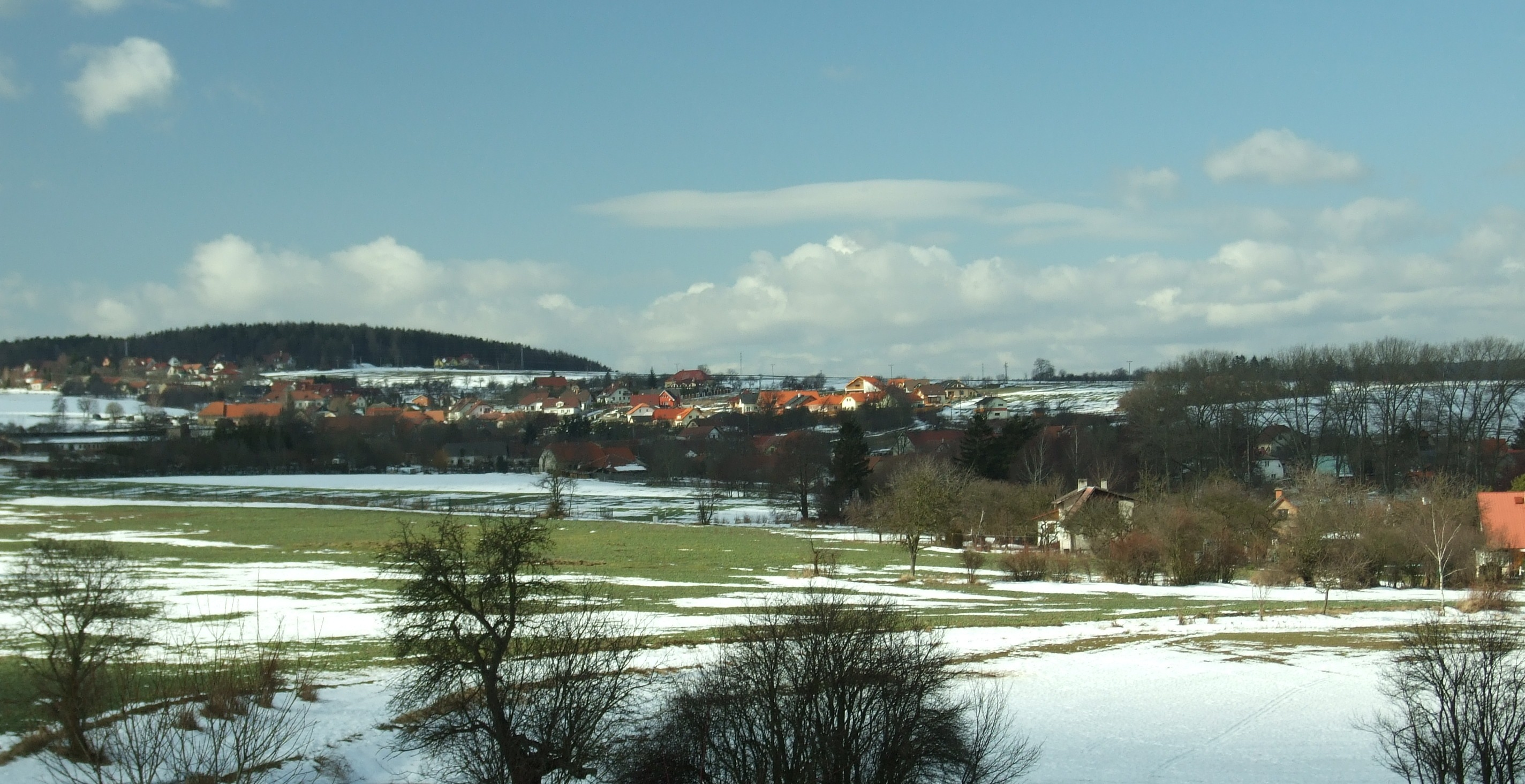 Village Zahořany near the town of Mníšek pod Brdy in Central Bohemian Region, CZ